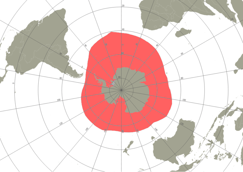 Antarctic Exclusion Zone Vendée Globe 2016-2017